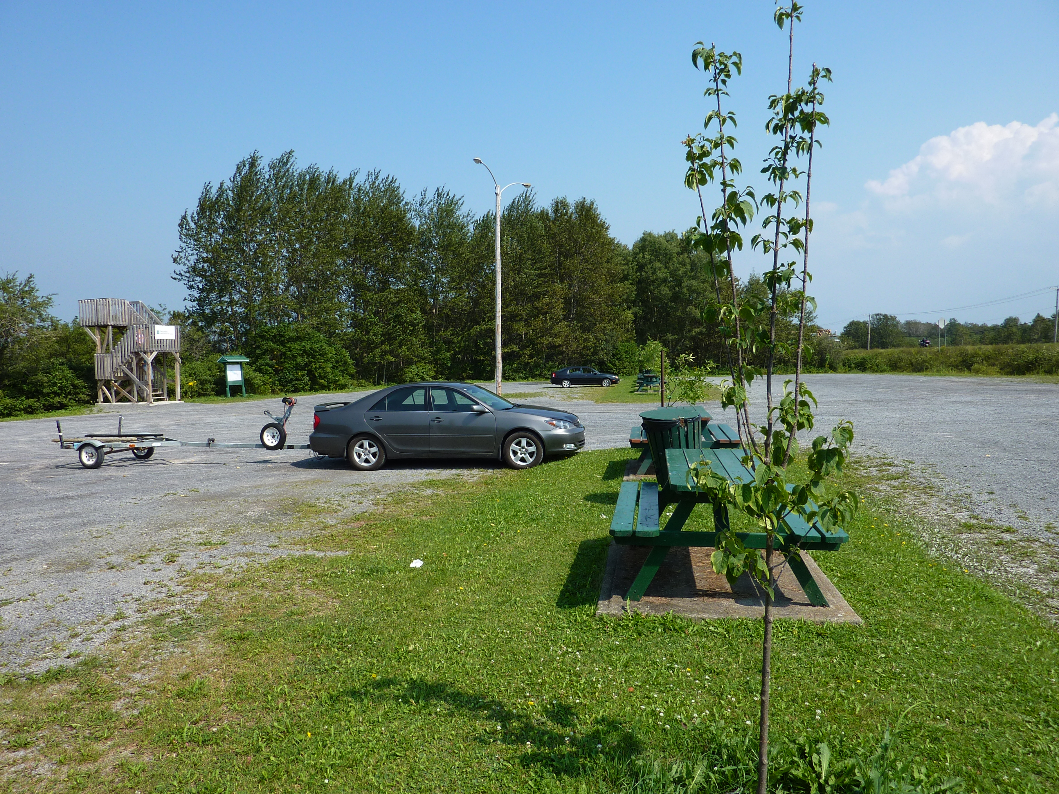 Pierre-Brochu park at Sayabec, Qc